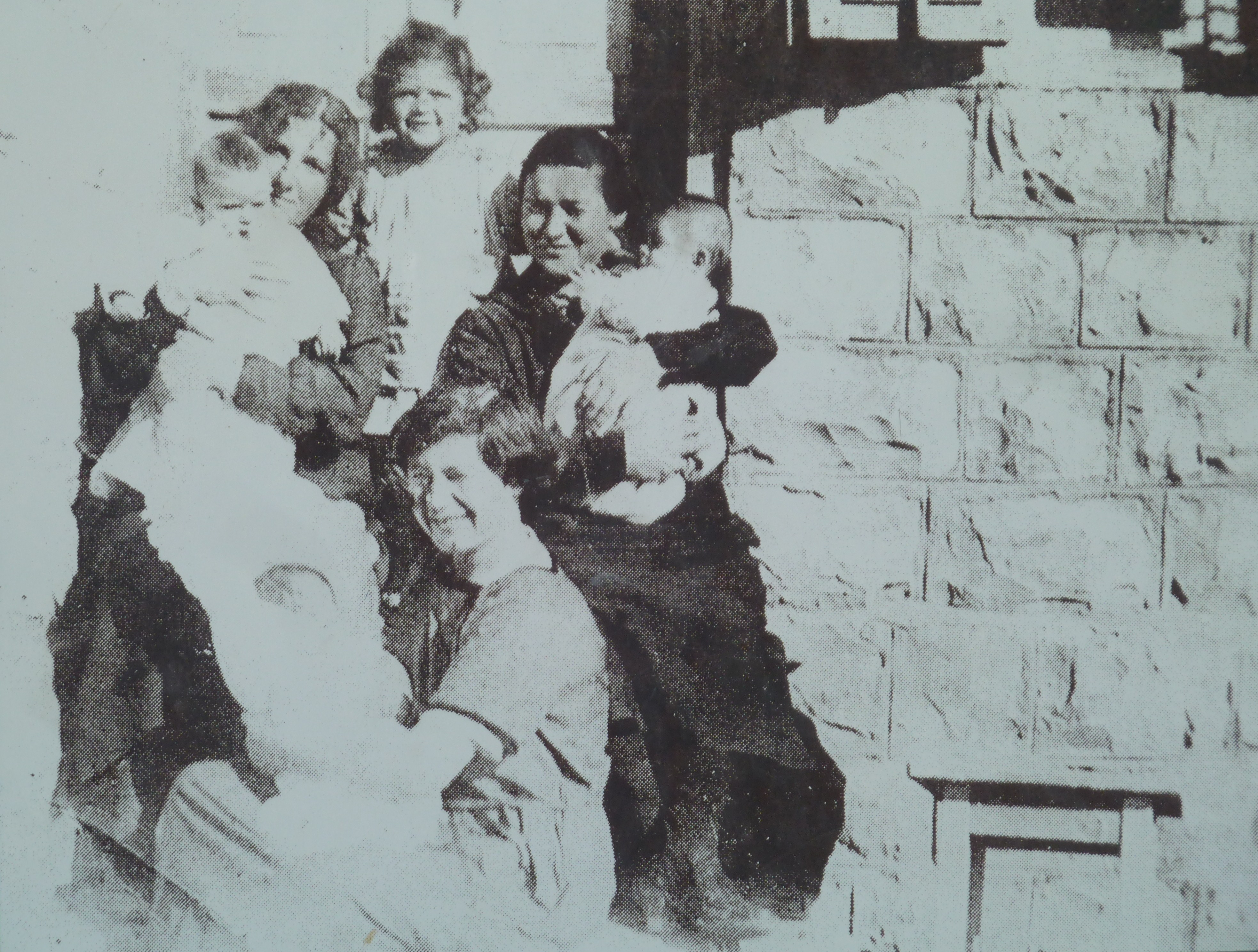 Golda Meir's Room, the Large Yard at Merhavia (Merhavia Courtyard)